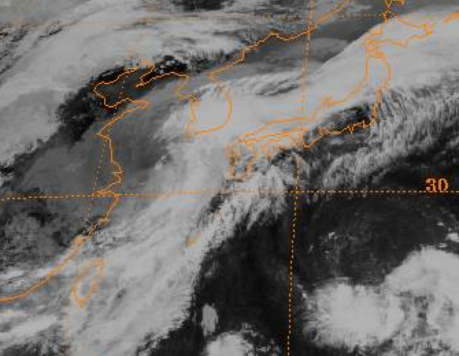 Satellite image of Tropical Storm Agnes over the East China Sea on September 2, 1981.